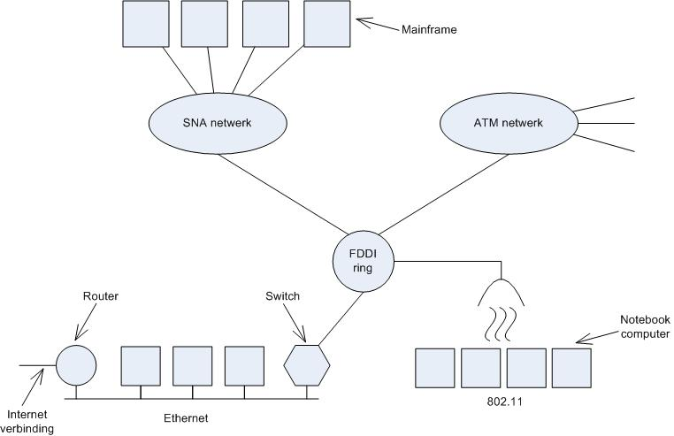 A collection of interconnected networks